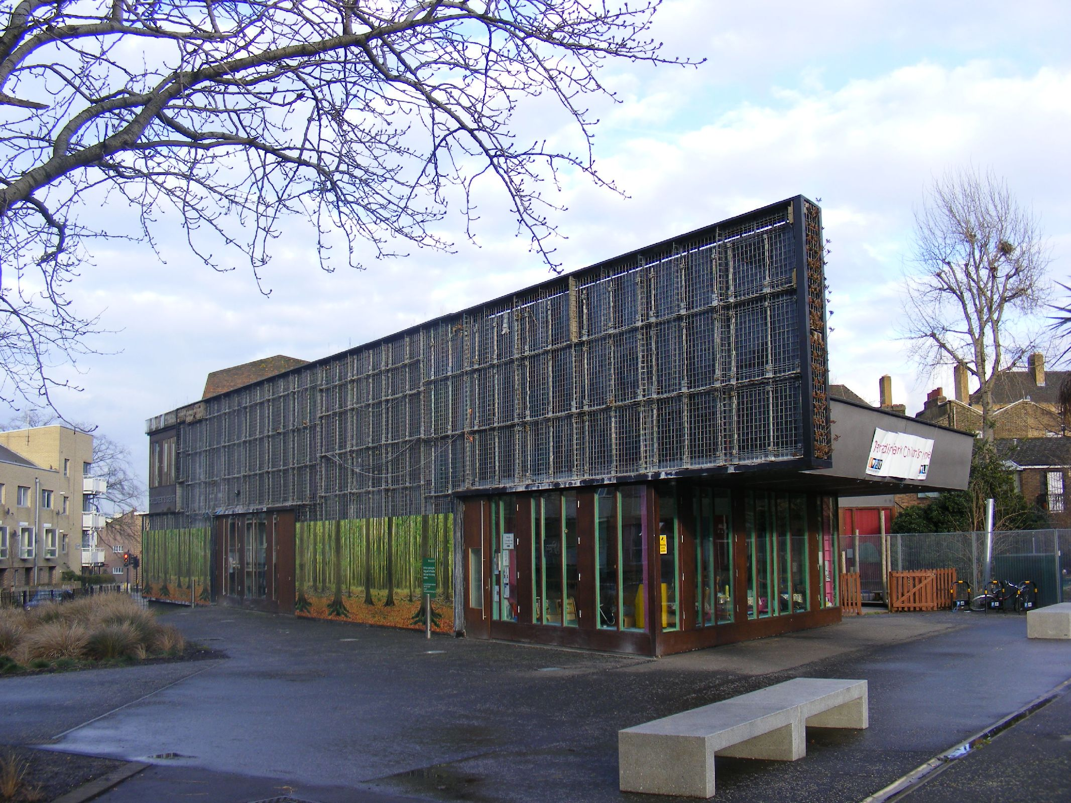 Designed by DSDHA architects (Deborah Saunt & David Hills, founded 1998) , the wall was meant to be alive with plant growth, a living wall.....................nteresting idea, a vertical garden.